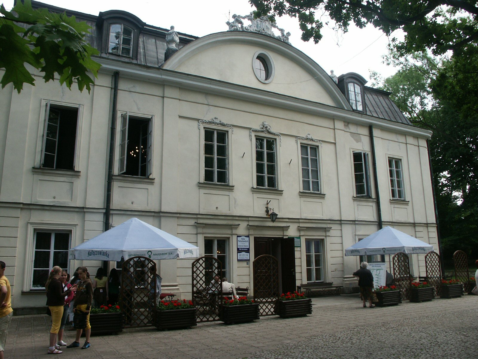 Nałęczów, Poland - Małachowskich Palace (Małachowscy's palace), late 18th century